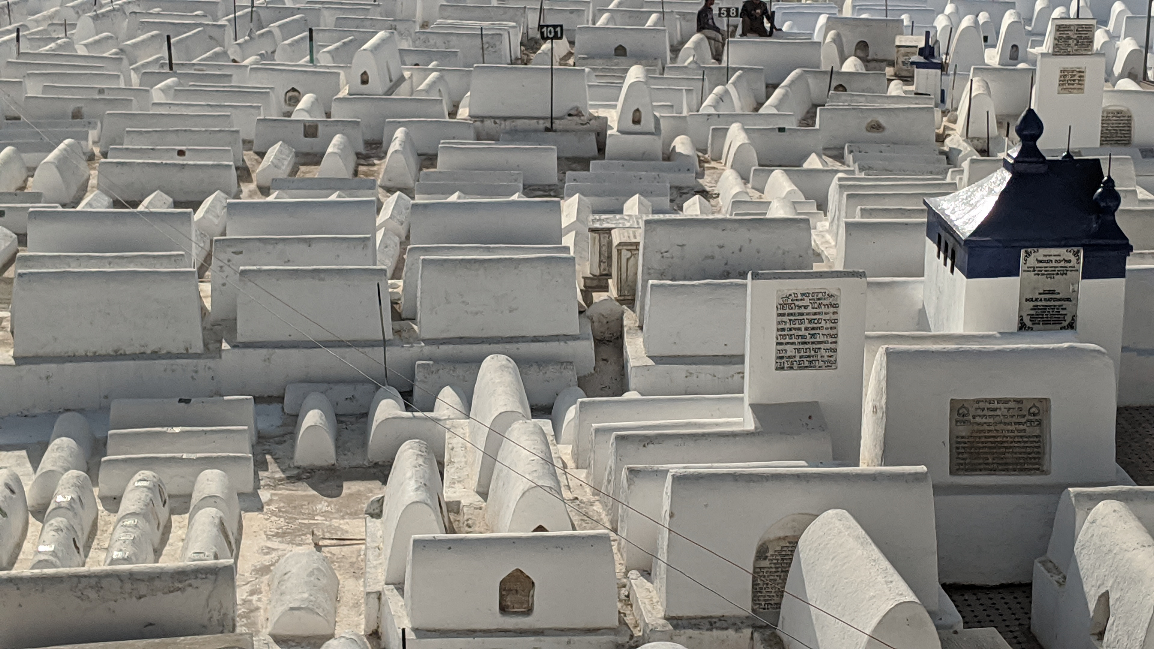 The Jewish cemetery in Fes, Morocco